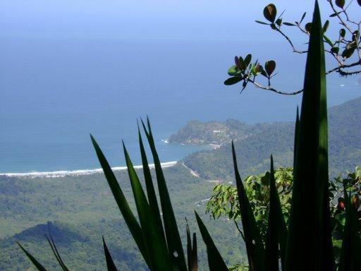 The view from the mountains of El Tucuche on the Maracas Bay